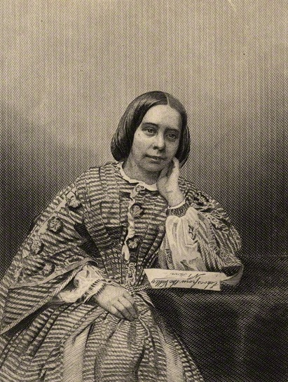 Marianne Farningham by Thomas Williams Hunt, engraving, late 19th century (Hunt was active only in the 1850-1879)